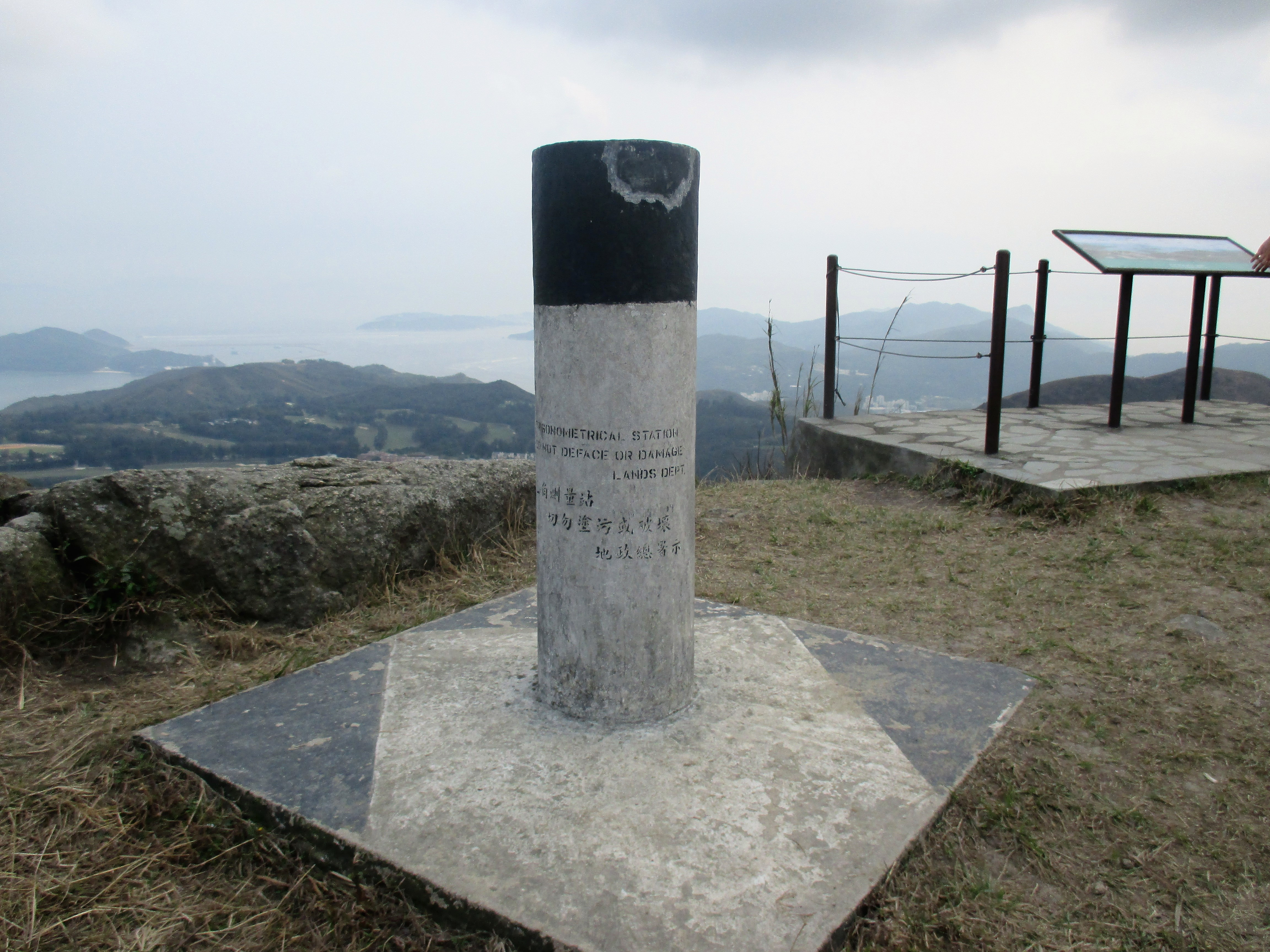 Discovery Bay Golf Course